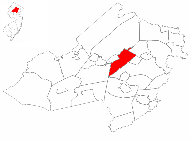 Position of Denville Township (highlighted in red) in Morris County. Morris County's position in New Jersey is in turn highlighted in red.